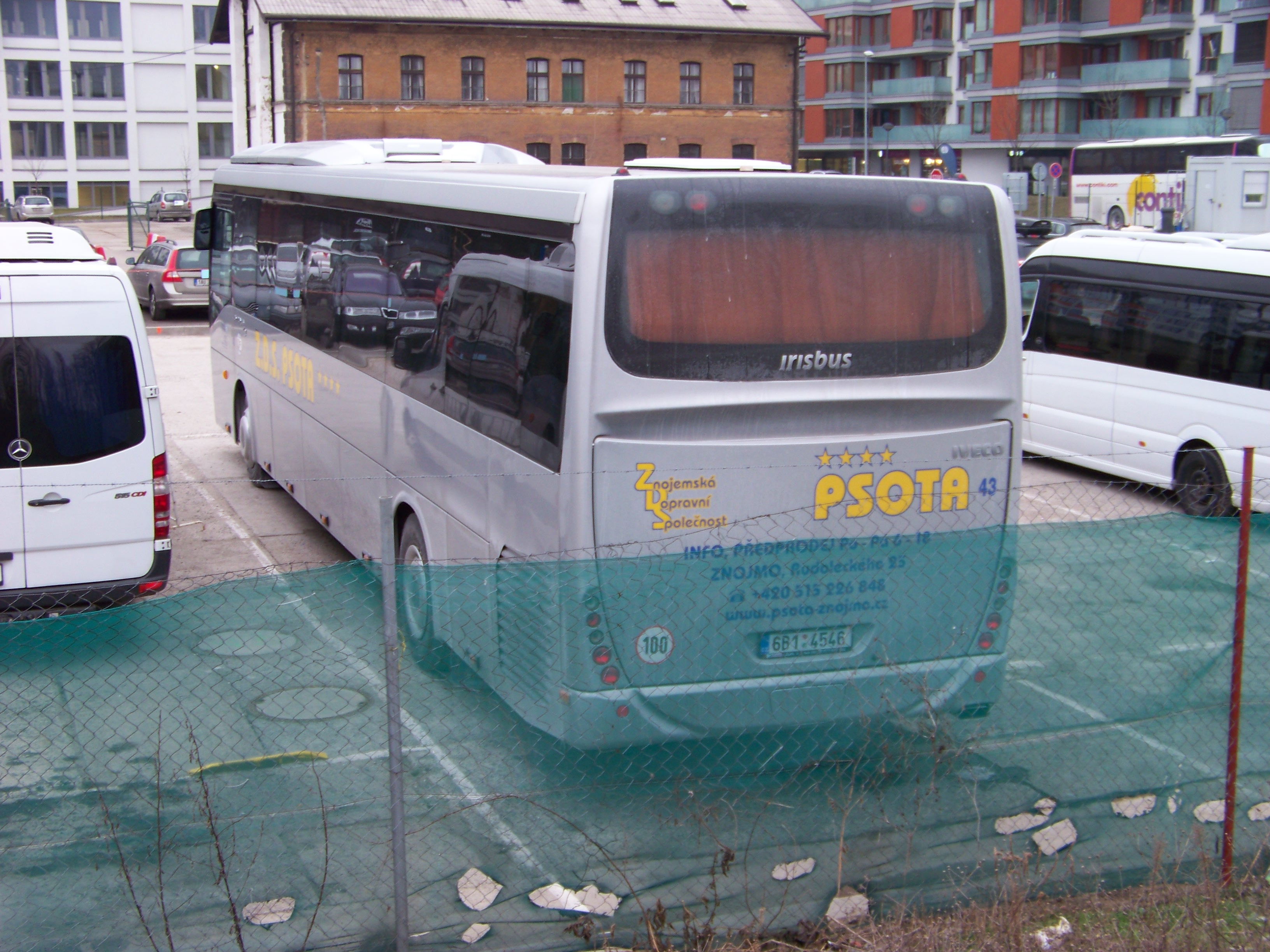 Prague-Karlín, the Czech Republic. Rohanský ostrov, a bus of ZDS Psota.